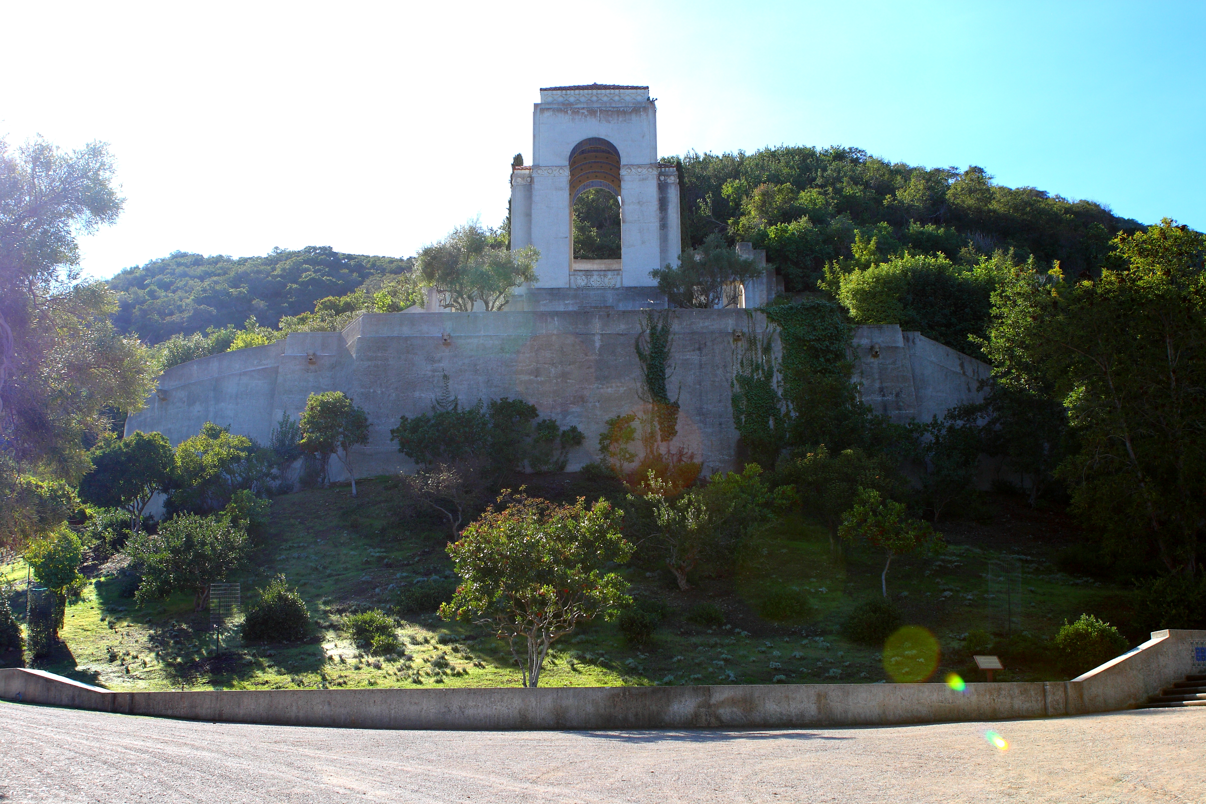 Wrigley Memorial from the front — in the Wrigley Memorial & Botanic Garden. A native plants botanic garden in Avalon, on Santa Catalina Island, California, USA.